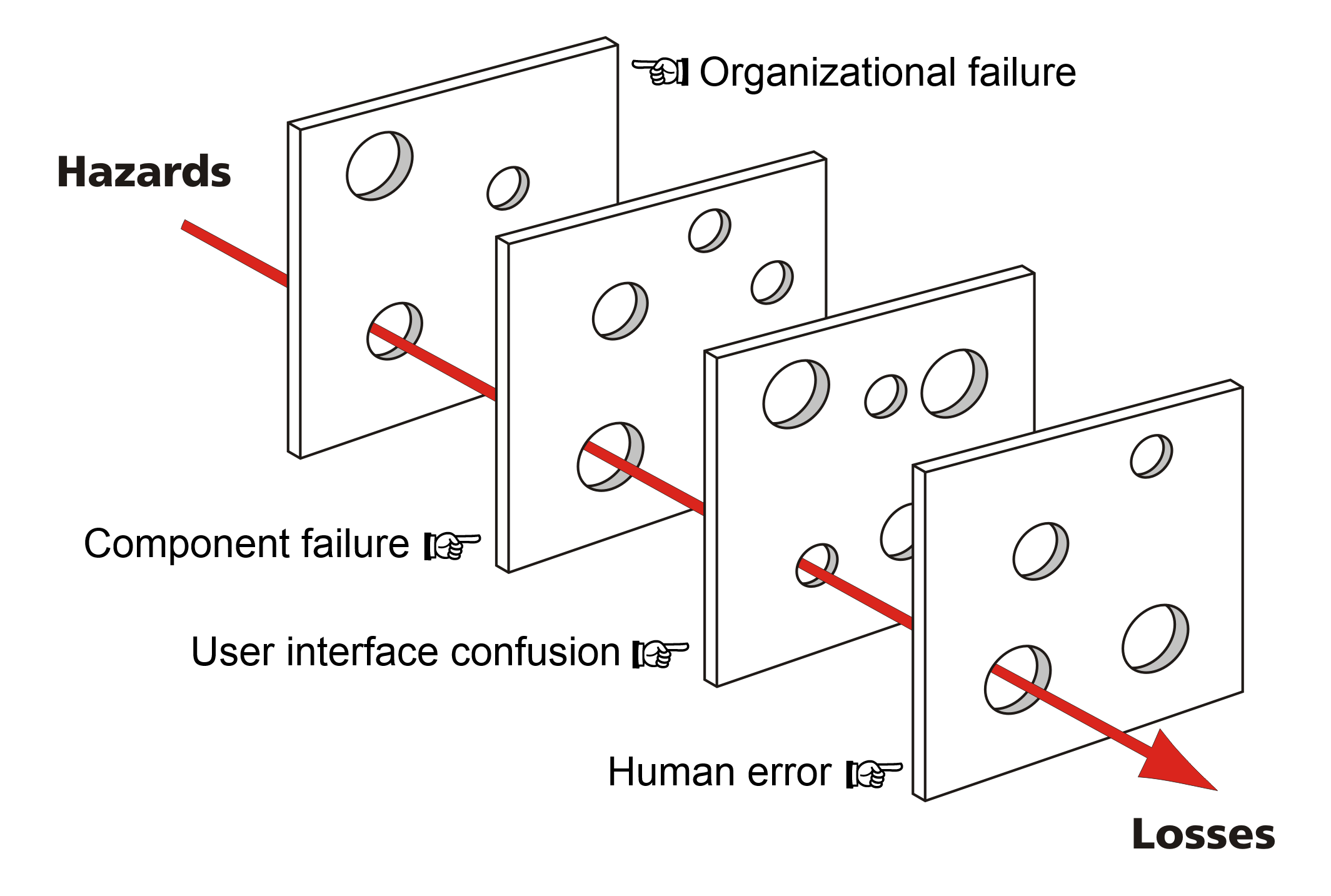 The Swiss cheese model of accident causation illustrates that, although many layers of defense lie between hazards and accidents, there are flaws in each layer that can allow the accident to occur. The model was propounded by by Dante Orlandella and James T. Reason of the University of Manchester. This version of the image includes labels with some sample types of flaws for each layer.